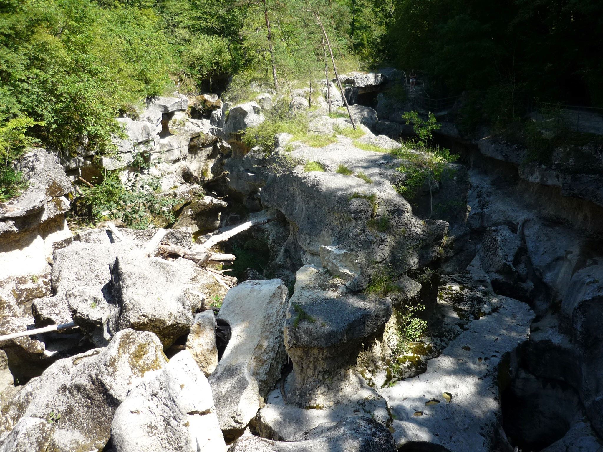 The Mer de Rochers just below the Fier Gorges, Montrottier, Haute-Savoie, France